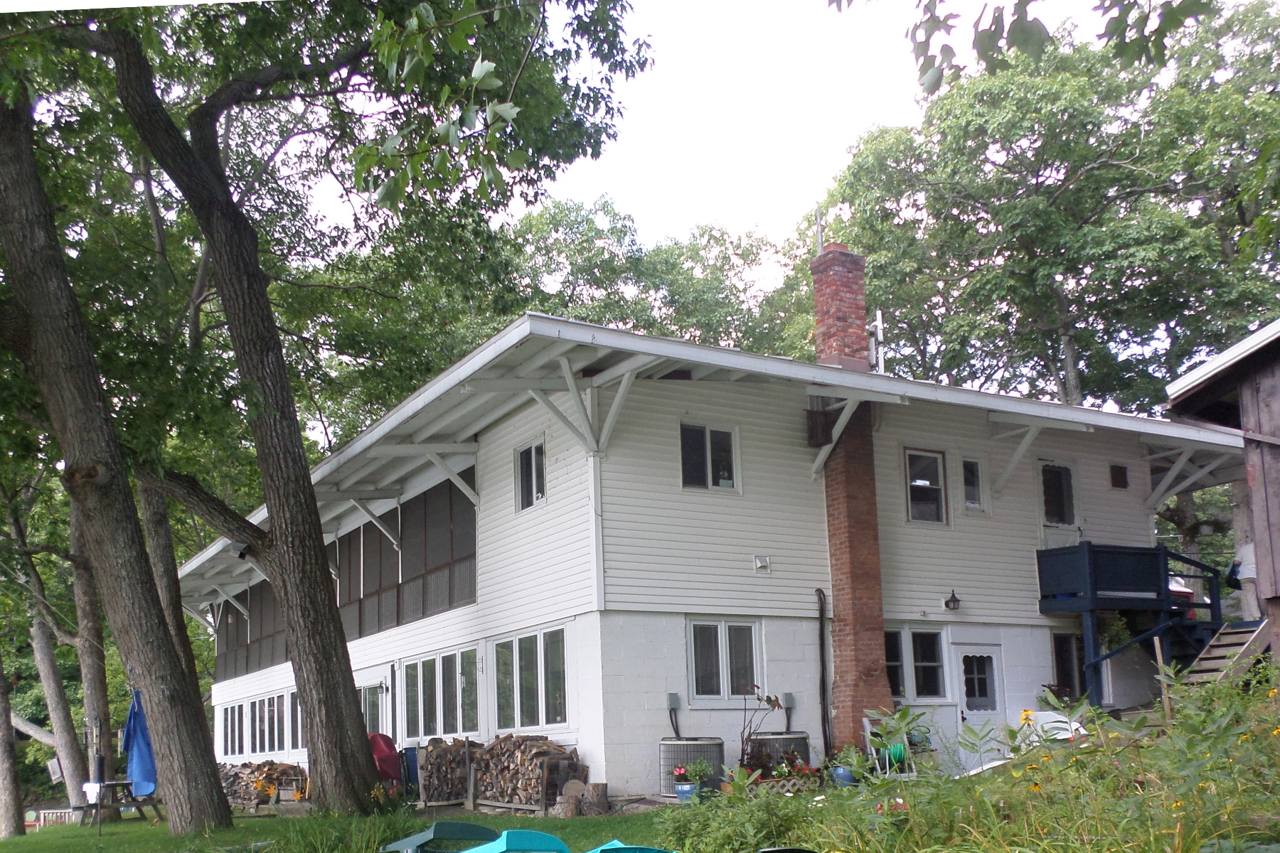 Former dining hall of Forest Park amusement park in Ballston Lake, New York